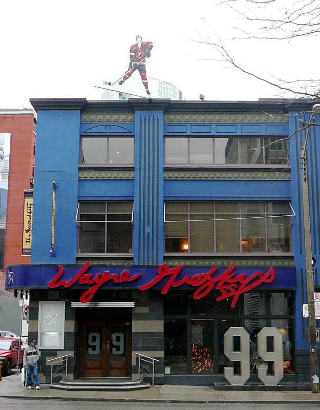 A popular tourist desination and sports bar, Wayne Gretzky's restaurant a significant collection of "The Great One's" own memorobilia, and a giant rotating table hockey piece on the roof.